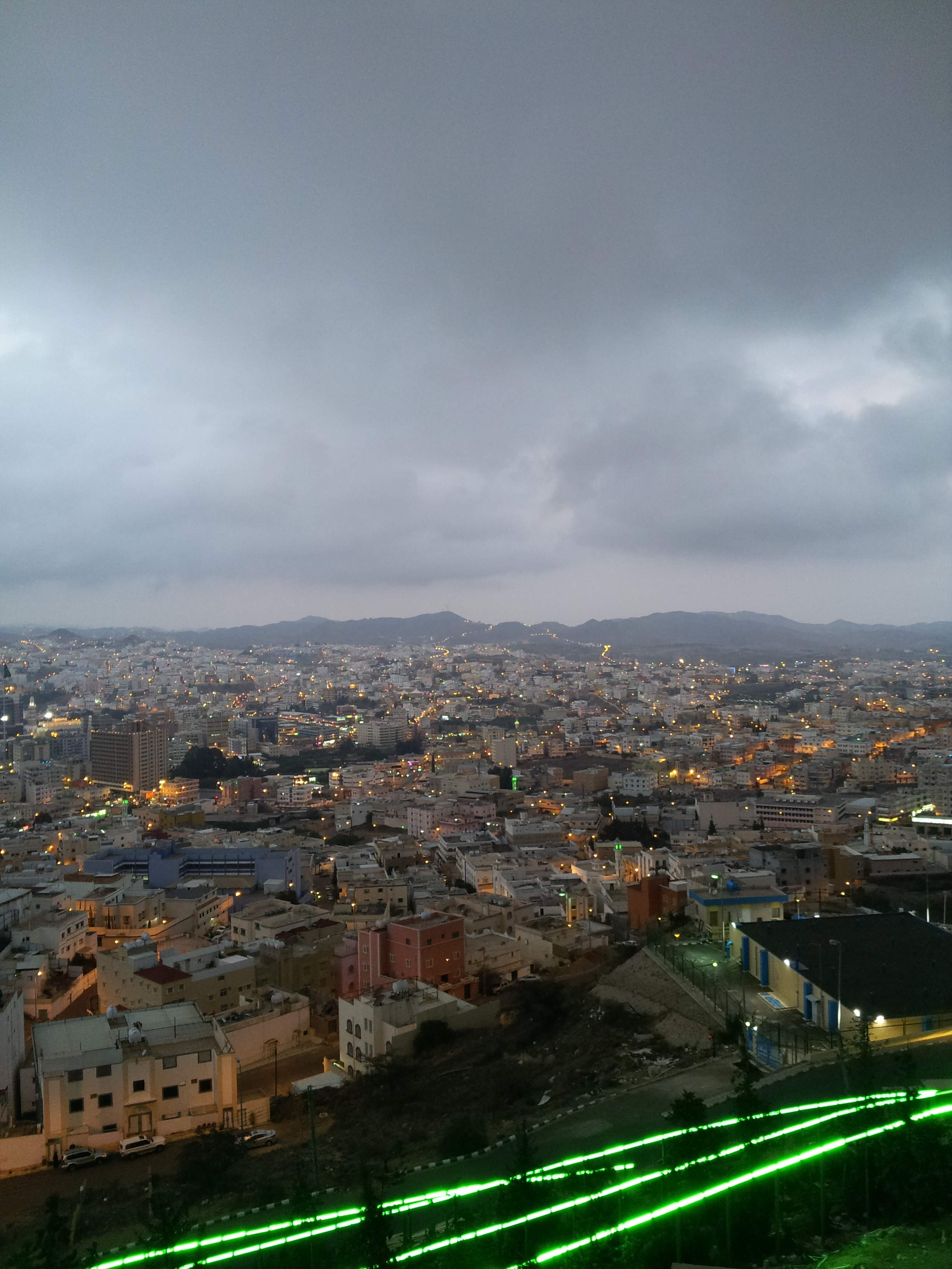 Abha city